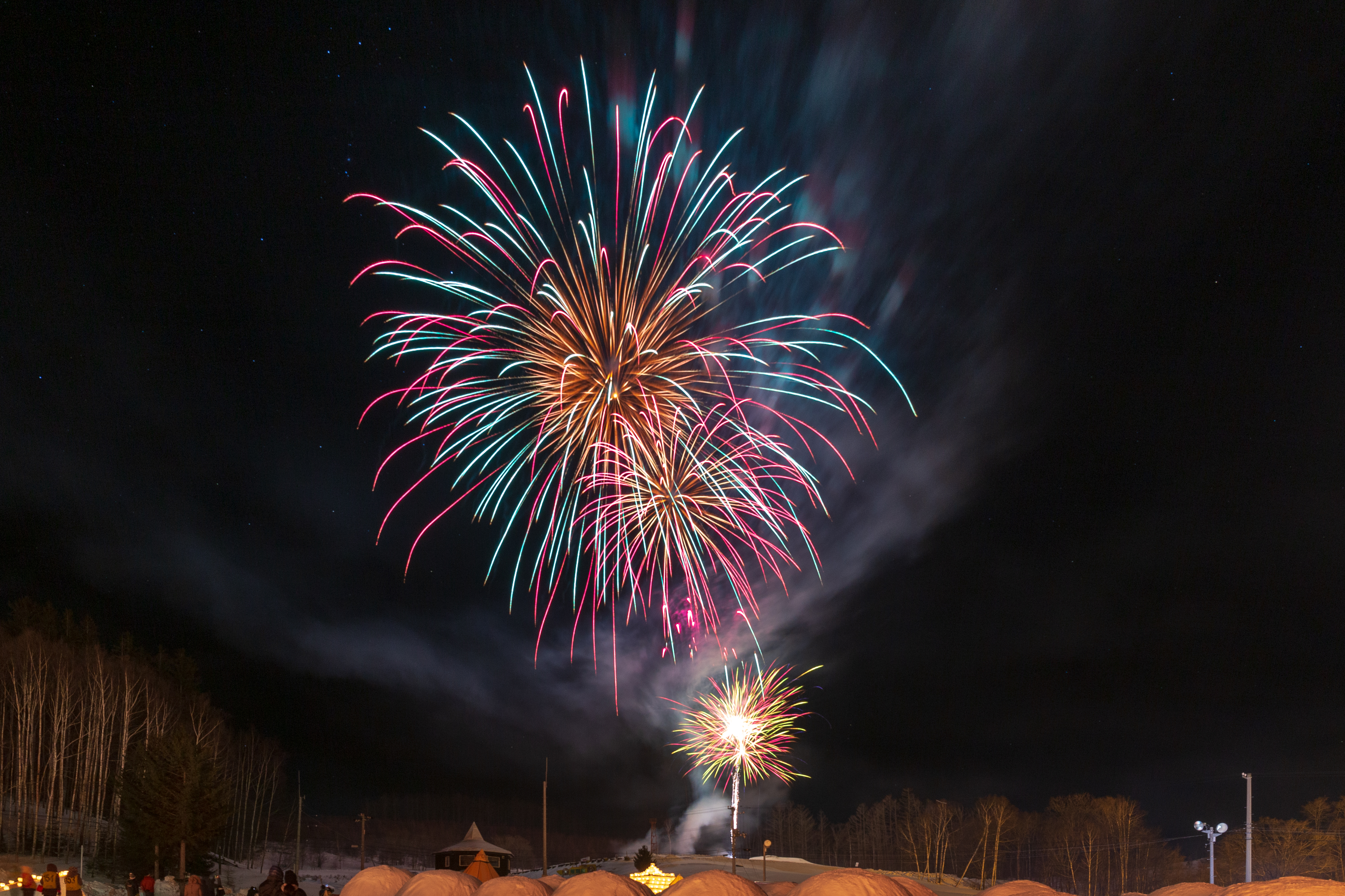 Fireworks at the Shibare Festival 2019